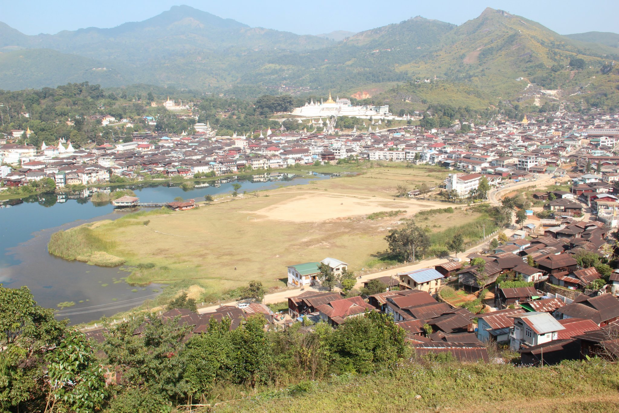 Mogok, Ruby Land( Elevation above sea level: 1162 m = 3812 ft ) located 200 km north of Mandalay, Burma. . Mogok, known as Ruby Land (Gems City). Burma rubies, sapphires and other precious stones are mined in Mogok area. Mogok and other villages nearby have been famous since ancient times for its gemstones, especially ruby and sapphire, but semi-precious stones such as lapis lazuli, garnet, moonstone, peridot and chrysoberyl are also found. 90% of the world's rubies come from Mogok. . Geographic coordinates of Mogok, Burma ( Myanmar ) . Latitude: 22°55′03″ N . Longitude: 96°30′35″ E